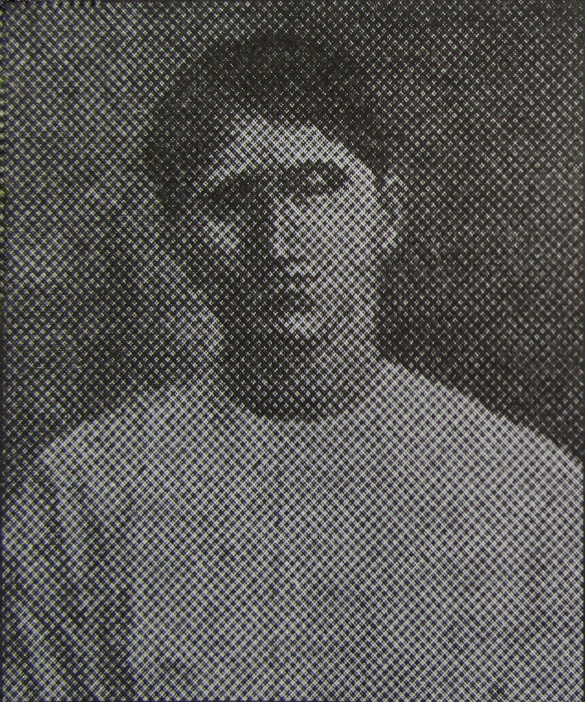 Gopinath Saha